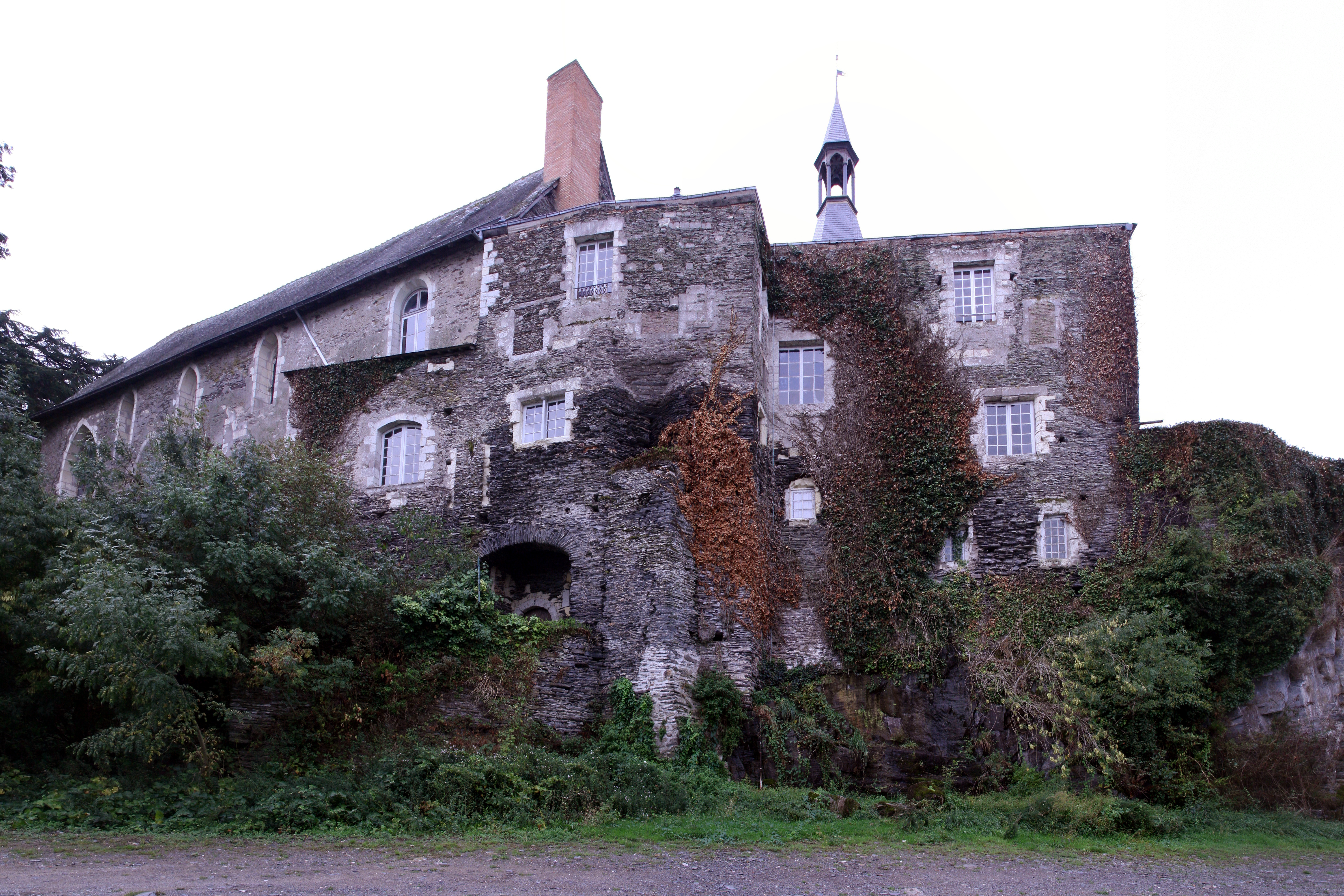 The former convent of "La Baumette" as seen from the Maine's riverside. Angers, Maine-et-Loire, Pays de la Loire, France.